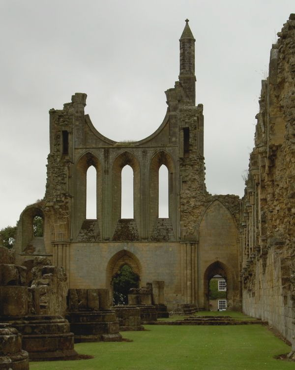 Byland Abbey, Yorkshire in august 2004